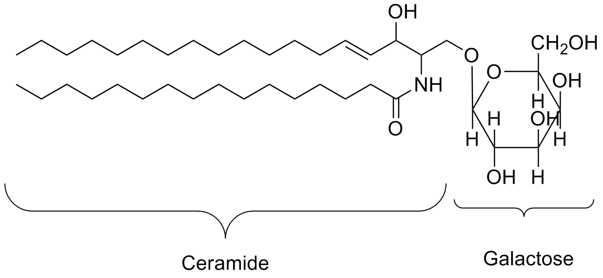 Chemical structure of Galactoceramide